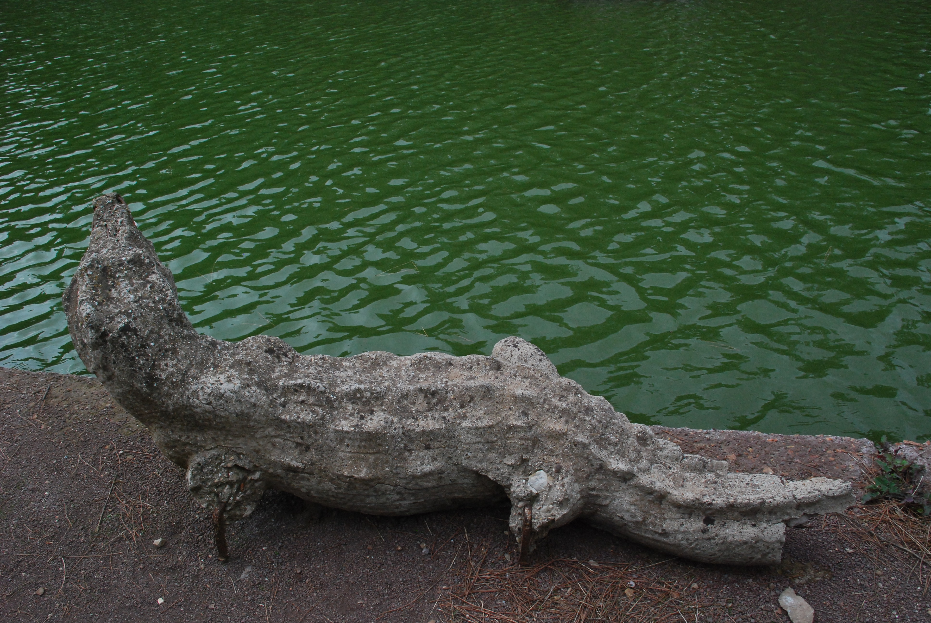 Villa Adriana, residence of Emperor Hadrian near Tivoli, the most extensive ancient roman villa, covering an area of at least 80 hectares.